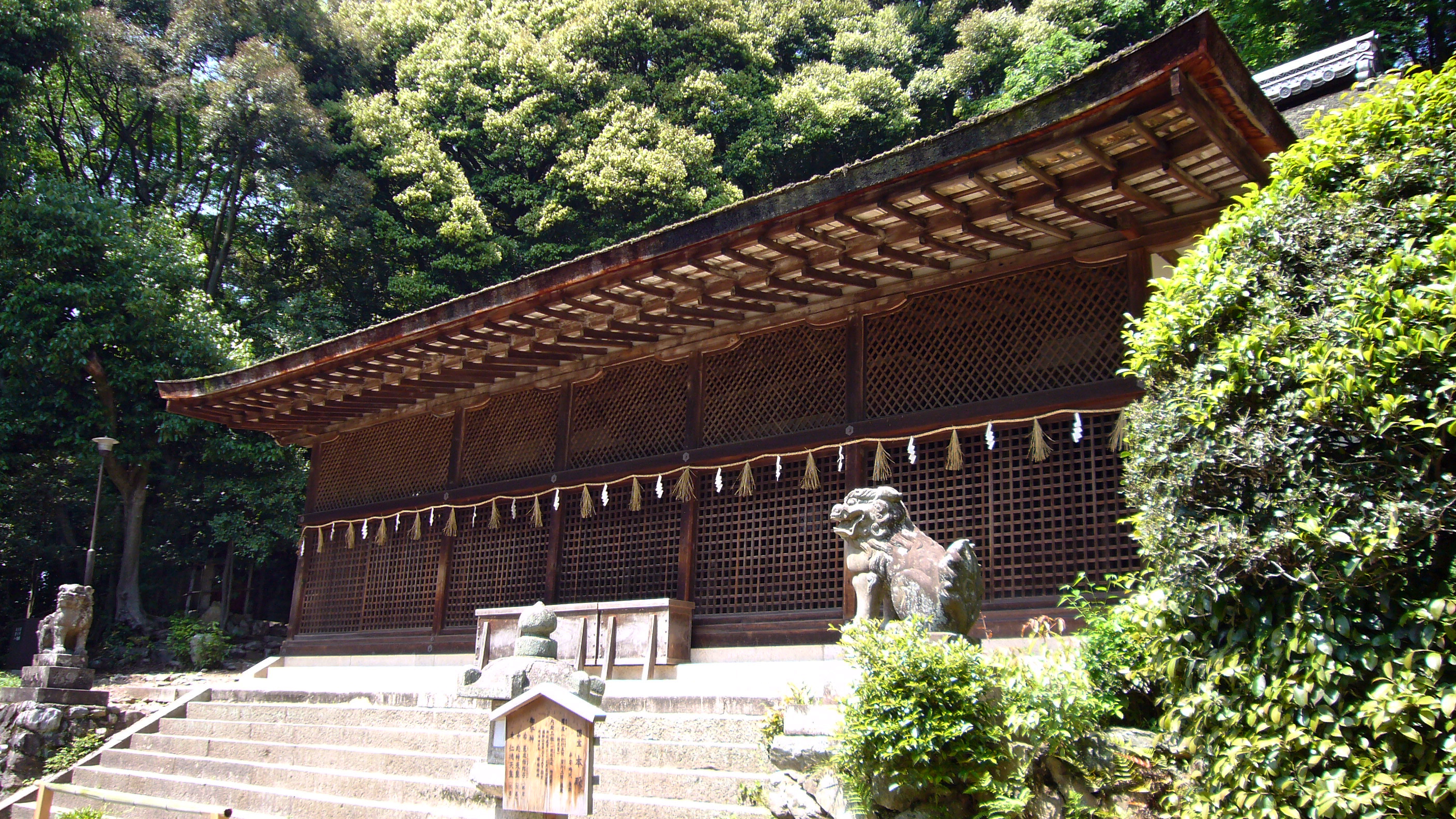 Ujigami-jinja's Main Shrine (Japan's National Treasure) in Uji, Kyoto prefecture, Japan